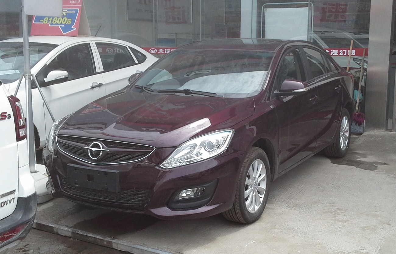 Haima M6 photographed in Xi'an, Shaanxi province, China.